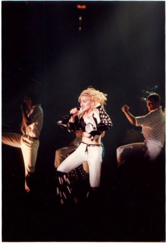 Photo taken during one of the concerts in 1990